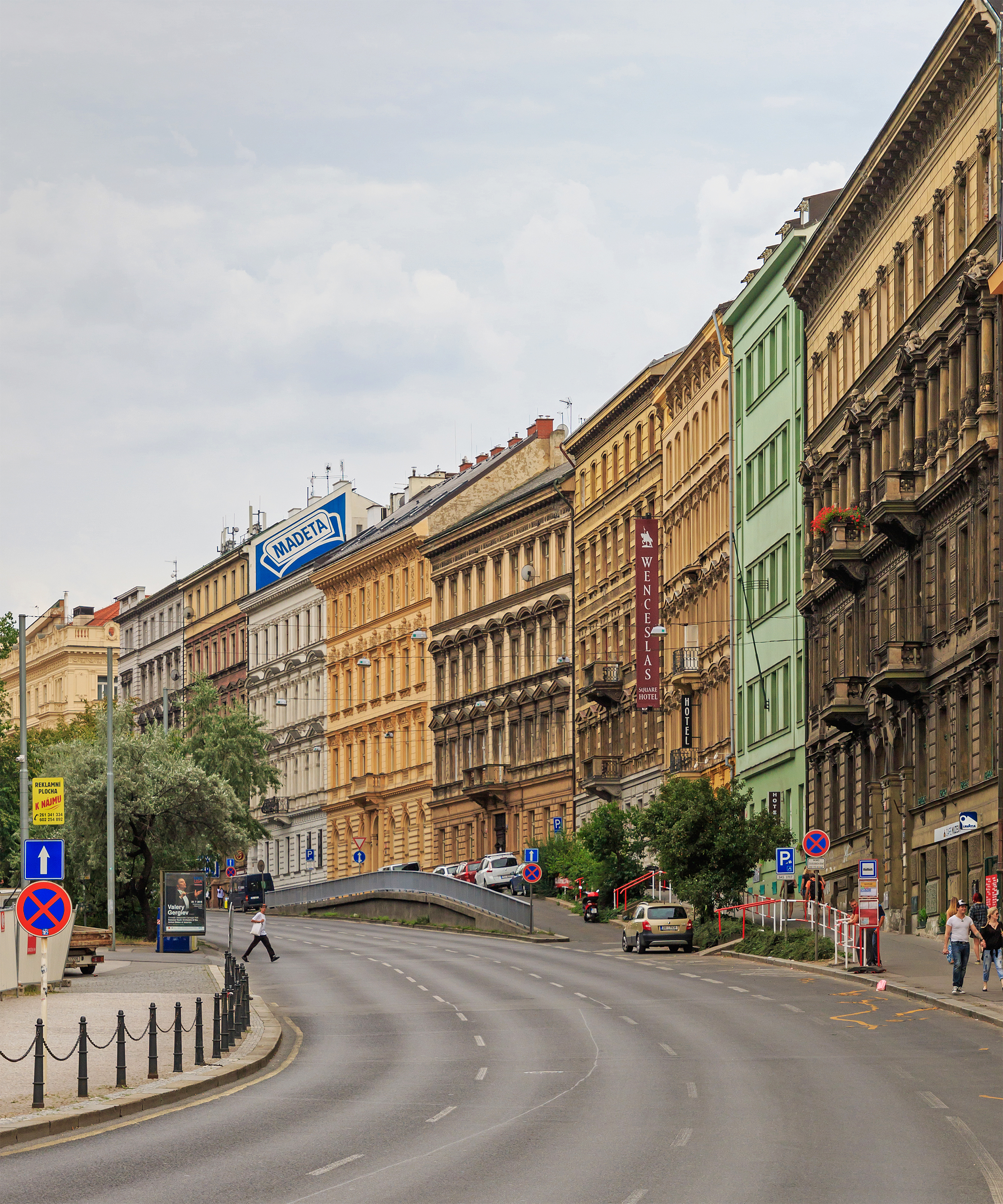 Mezibranská Street near Wenceslas Square in Prague (Czech Republic)